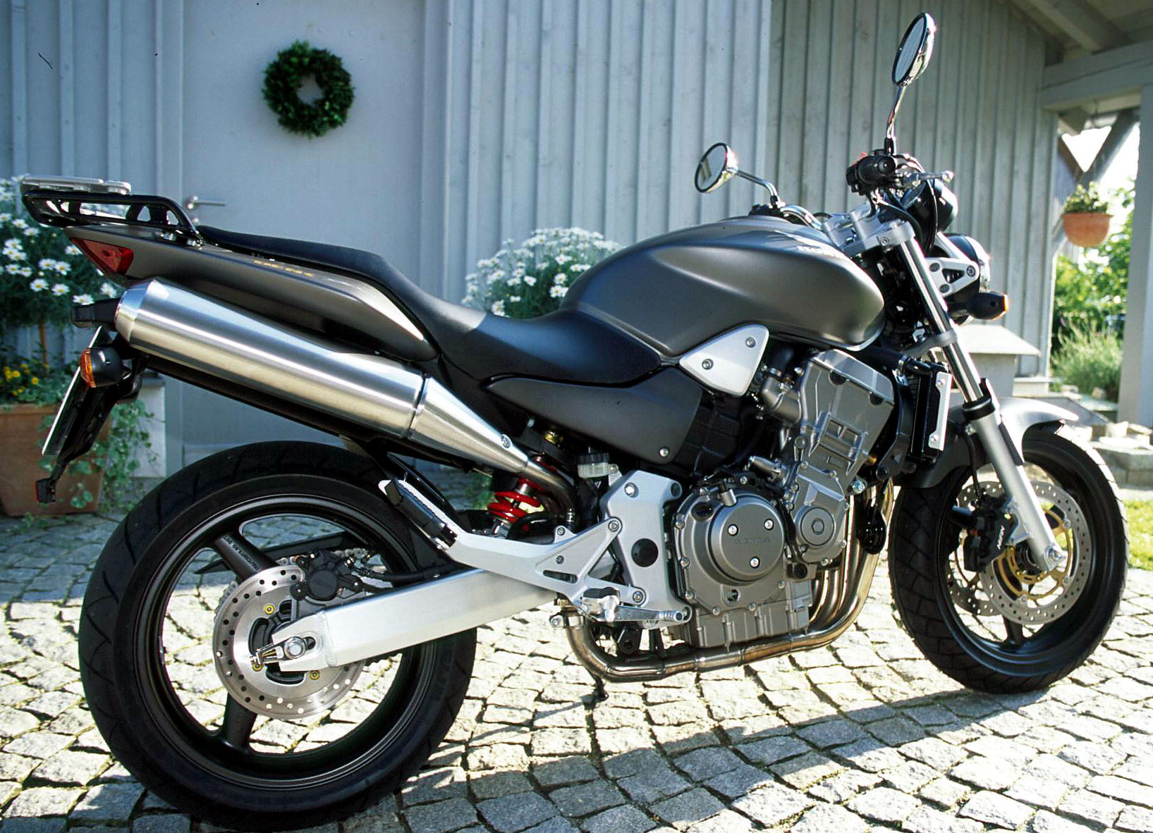 Honda CB900F scanned image